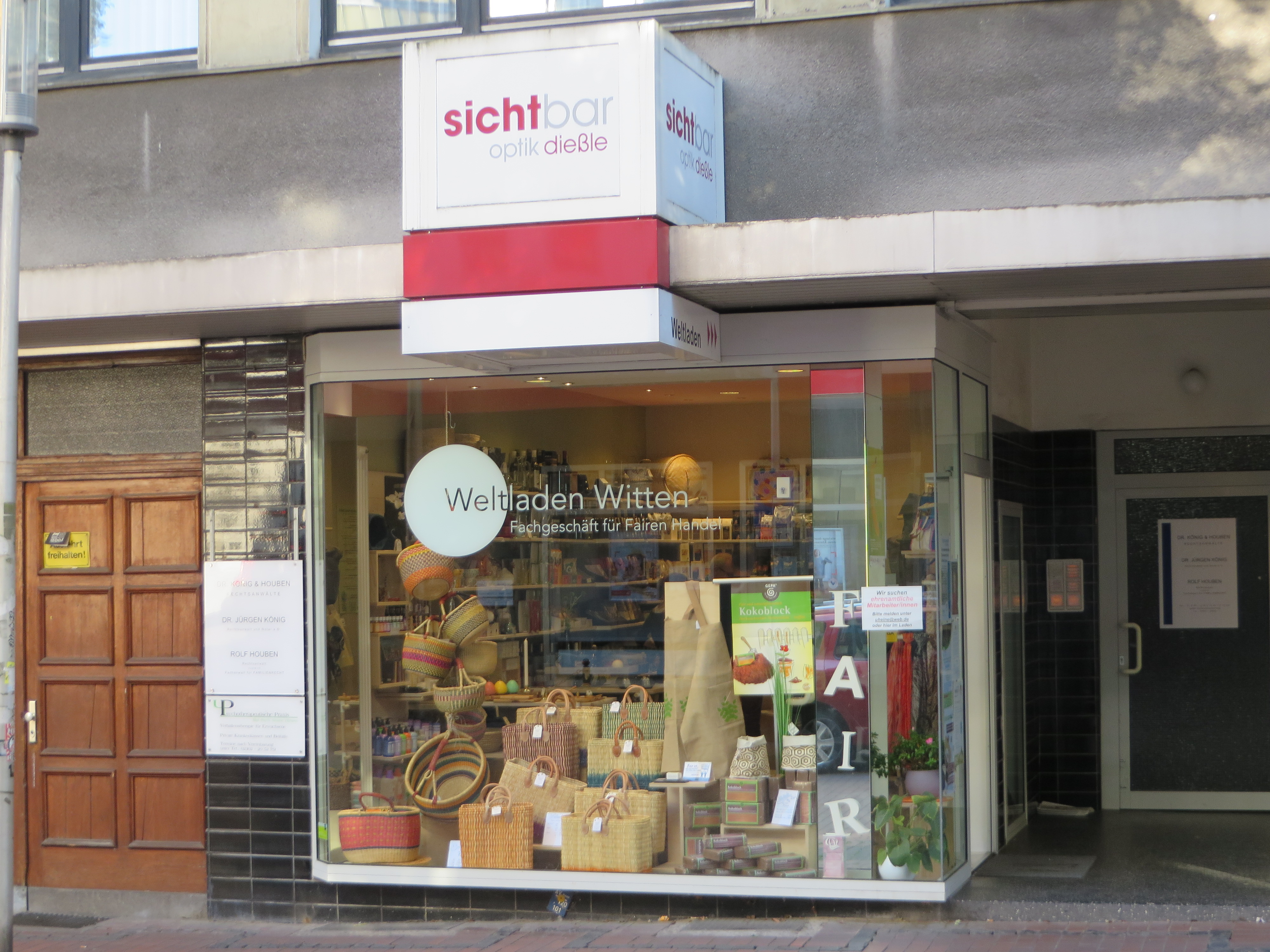 Worldshop Weltladen Witten in Witten, Germany